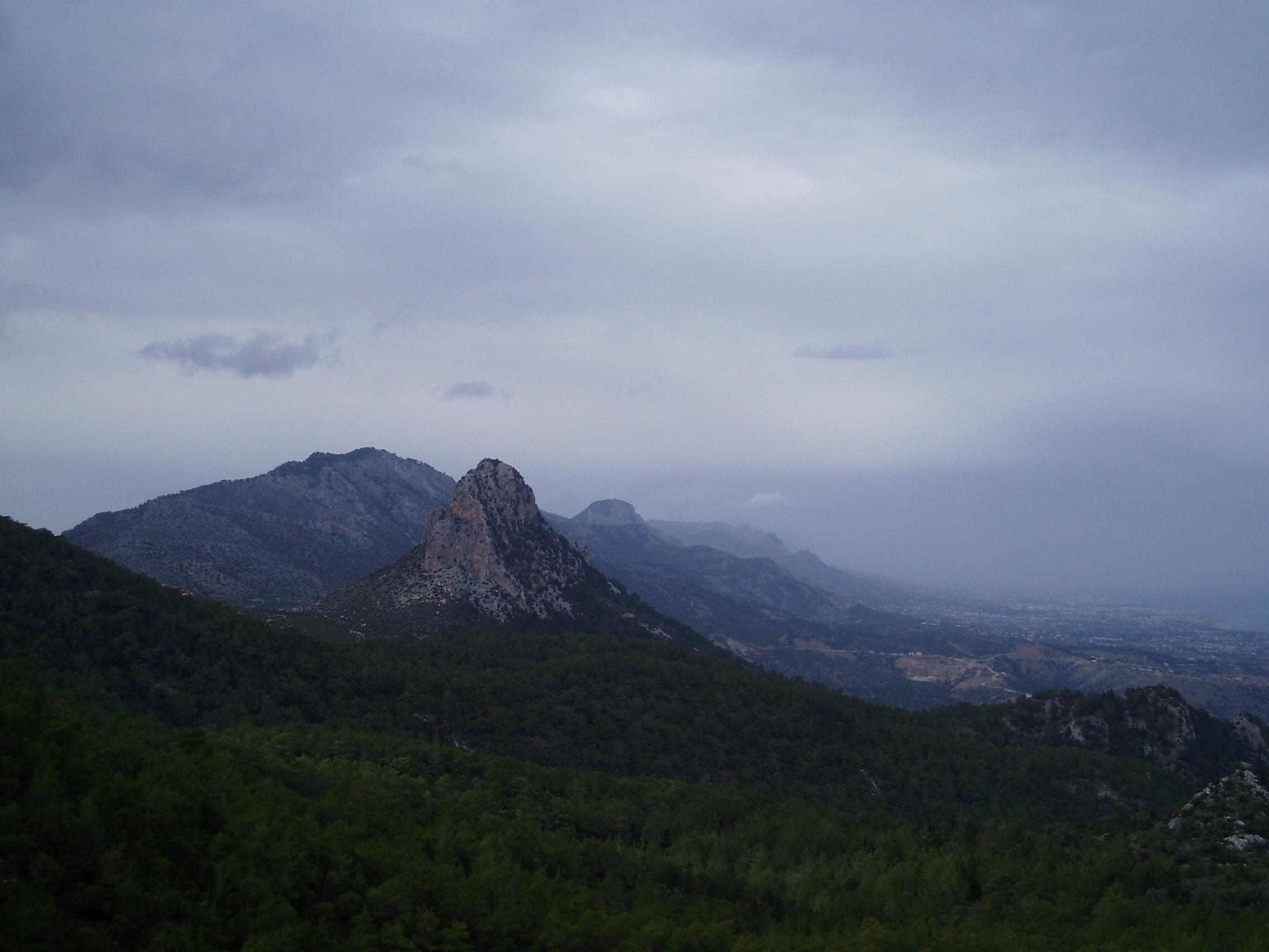 Girne Daglari—Kyrenia Mountain Range — in Northern Cyprus. Author: Atak Kara